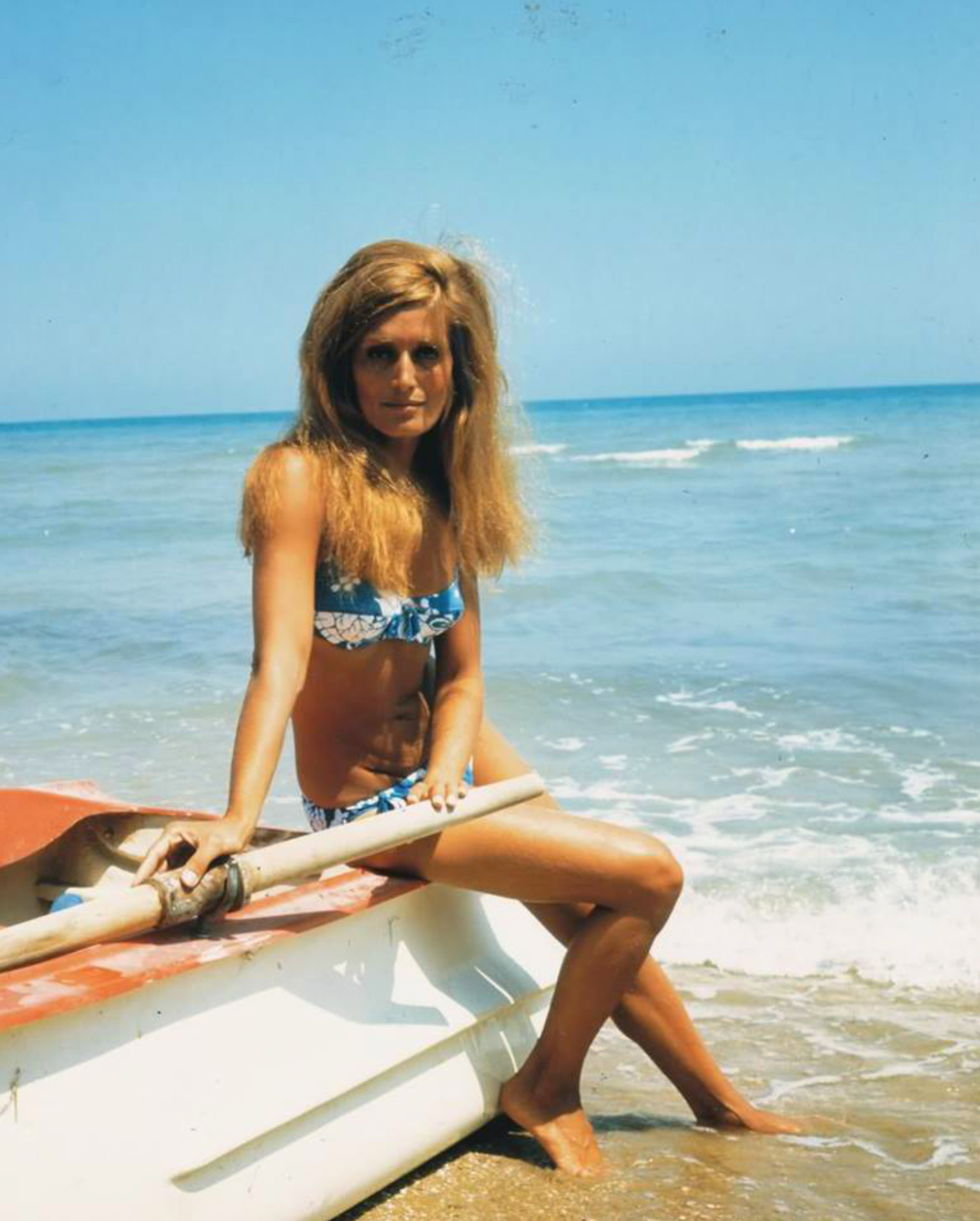 Dalida has fun on the beach of Senigallia, Italy, during a break of the laborious Cantagiro 1968 Tour in July 1968.